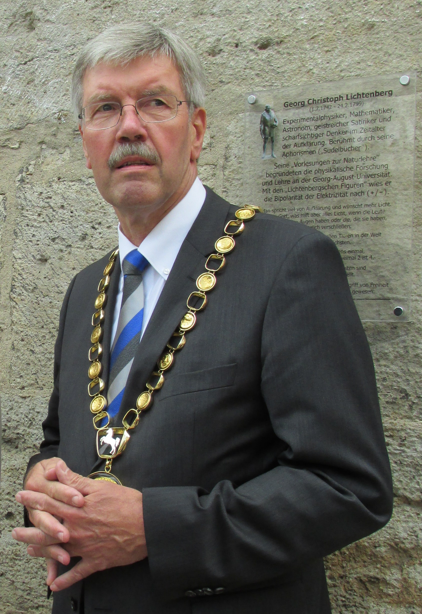 Wolfgang Meyer (SPD), mayor, Göttingen, Germany check usage